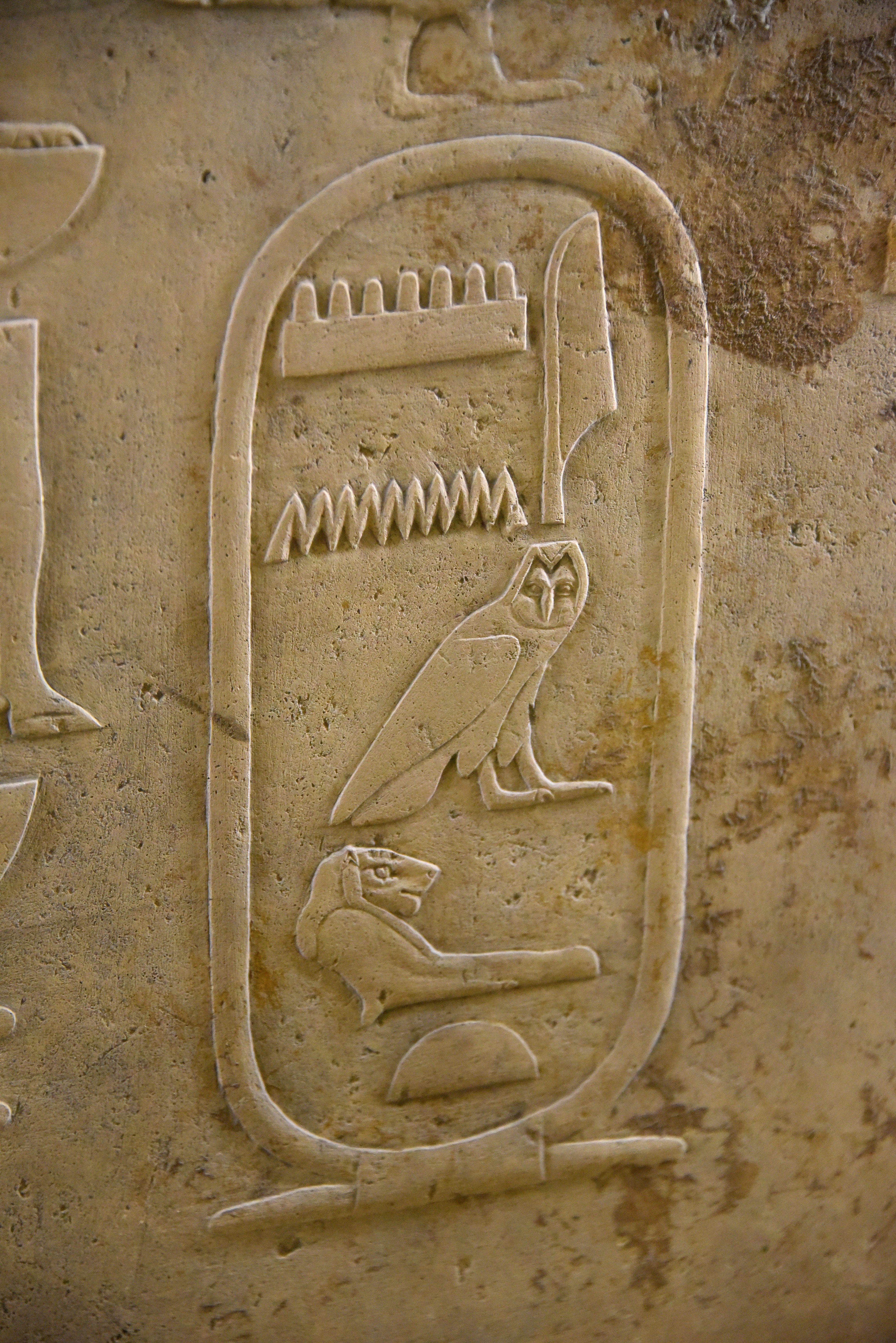 This is the birth name or nomen of the Egyptian pharaoh Amenemhat I. 12th Dynasty. Cartouche in low relief. Detail of a limestone wall-block from the city of Koptos (Qift), modern-day Egypt. The Petrie Museum of Egyptian Archaeology, London. With thanks to the Petrie Museum of Egyptian Archaeology, UCL.